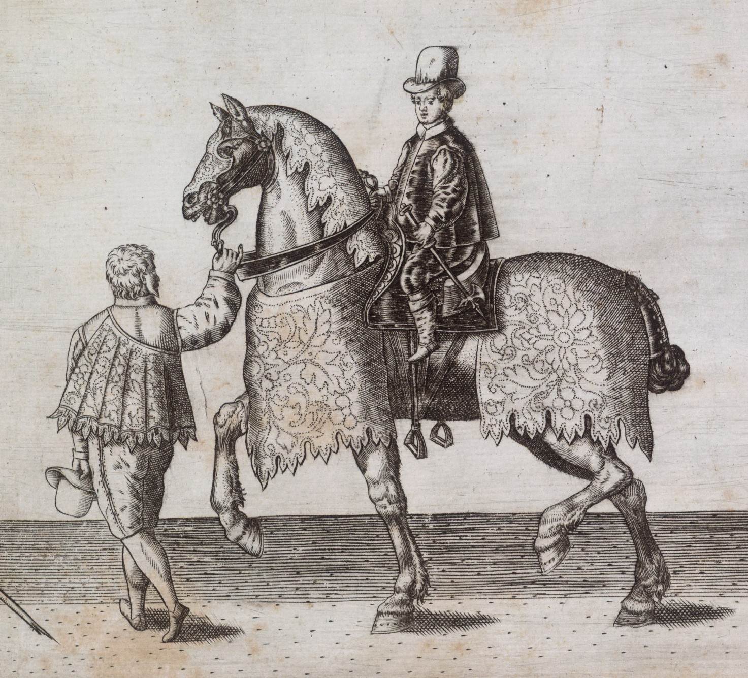 Detail from Thomas Lant's engraving, showing the lutenist, Daniel Bacheler